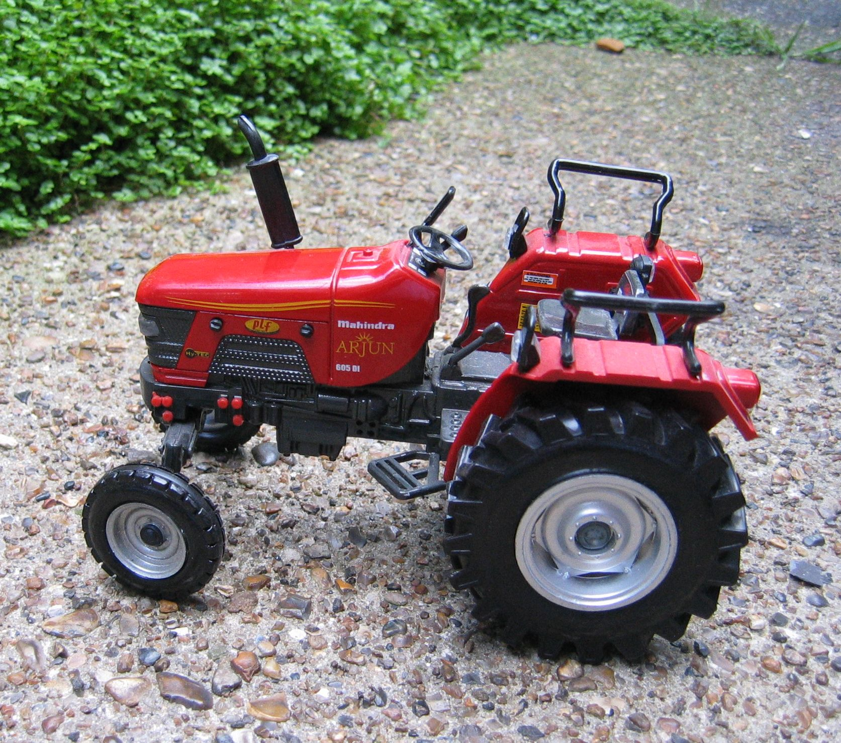 Model of a Mahindra tractor, model Arjun.